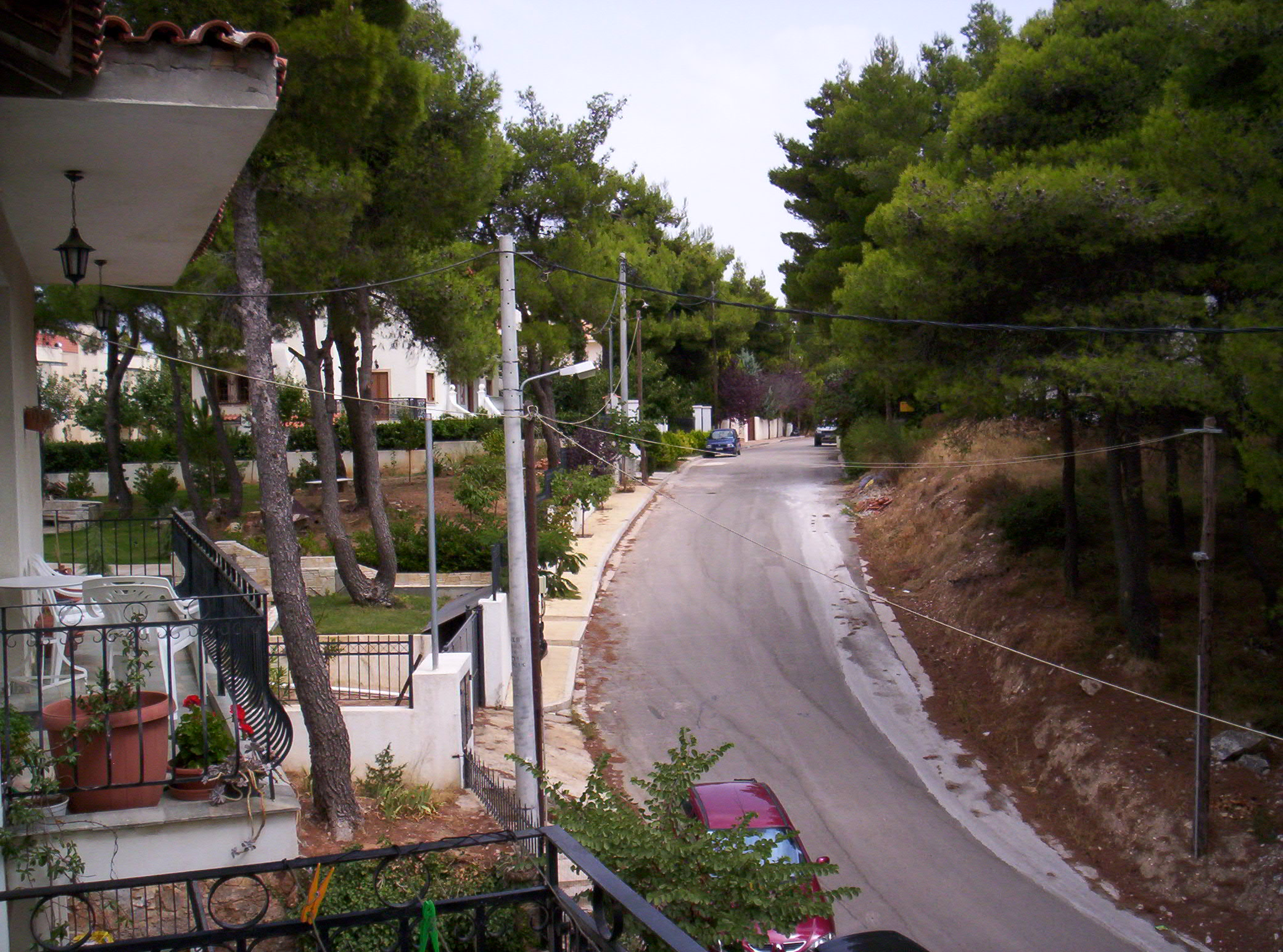 Typical Dionysos neighbourhood